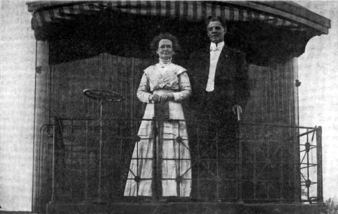 Photo of Reverend and Mrs. Barkman on the Baptist railroad chapel car Good Will.